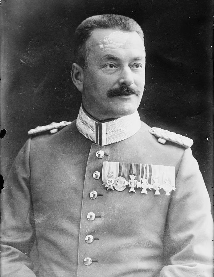 Gen. Von Kneussel (LOC) aka Paul von Kneußl Bain News Service,, publisher. Gen. Von Kneussel [between ca. 1910 and ca. 1915] 1 negative : glass ; 5 x 7 in. or smaller. Notes: Title from unverified data provided by the Bain News Service on the negatives or caption cards. Forms part of: George Grantham Bain Collection (Library of Congress). Format: Glass negatives. Repository: Library of Congress, Prints and Photographs Division, Washington, D.C. 20540 USA, General information about the Bain Collection is available at Higher resolution image is available (Persistent URL): Call Number: LC-B2- 3542-4